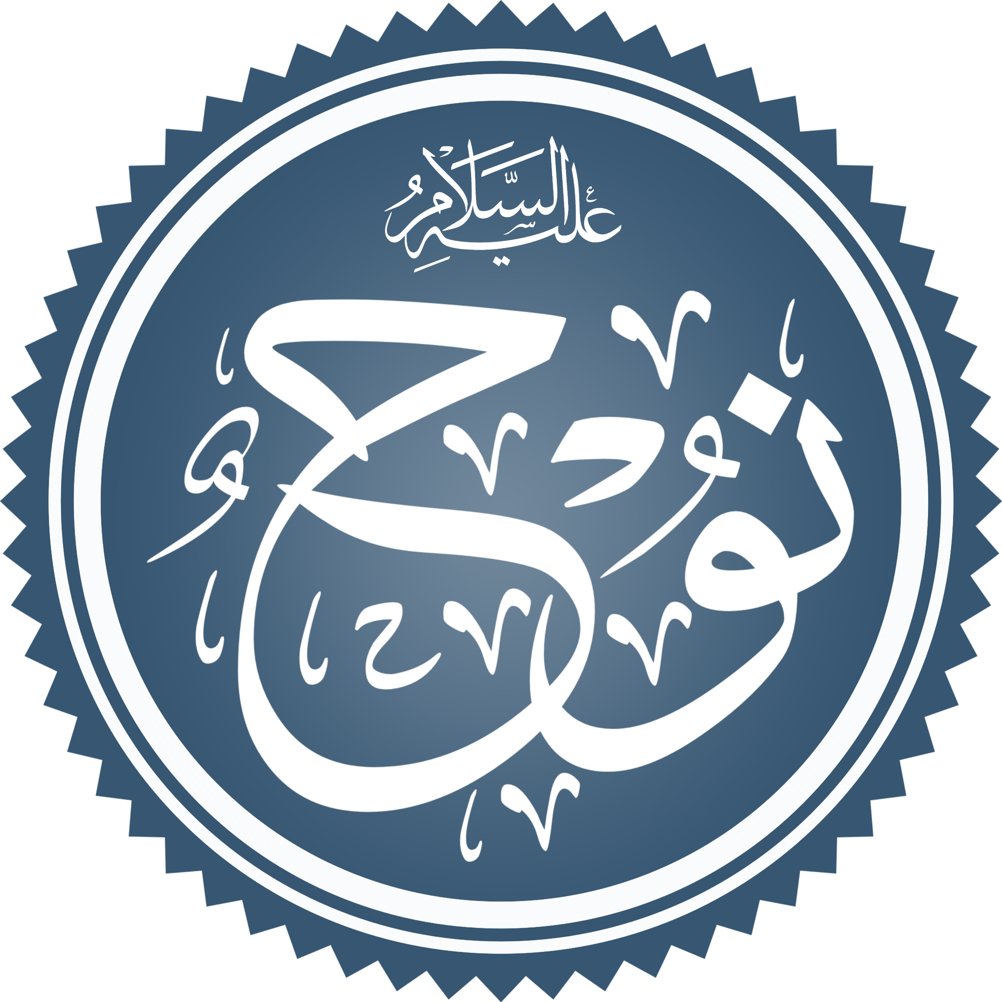 The calligraphic logo of Prophet Nuh (Noah) without background.